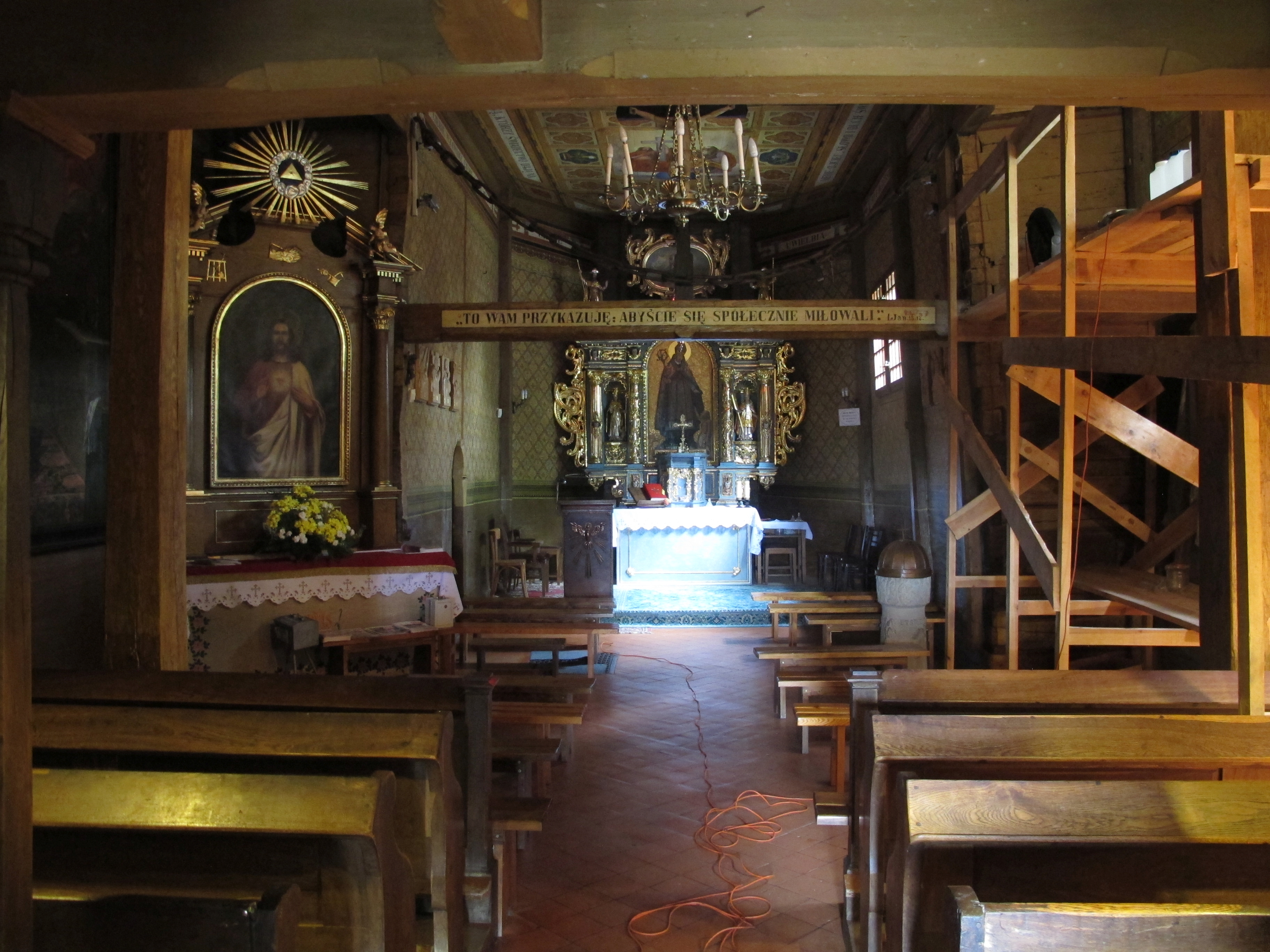 Zawada - St. Martin's church